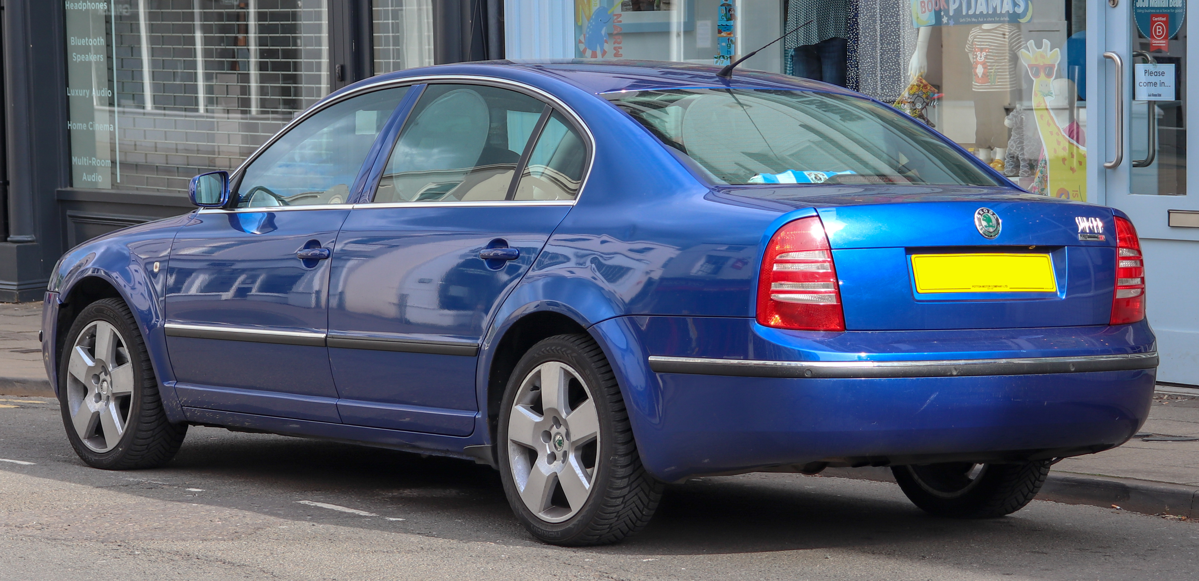 2005 Skoda Superb Elegance TDi 1.9 Rear Taken in Leamington Spa